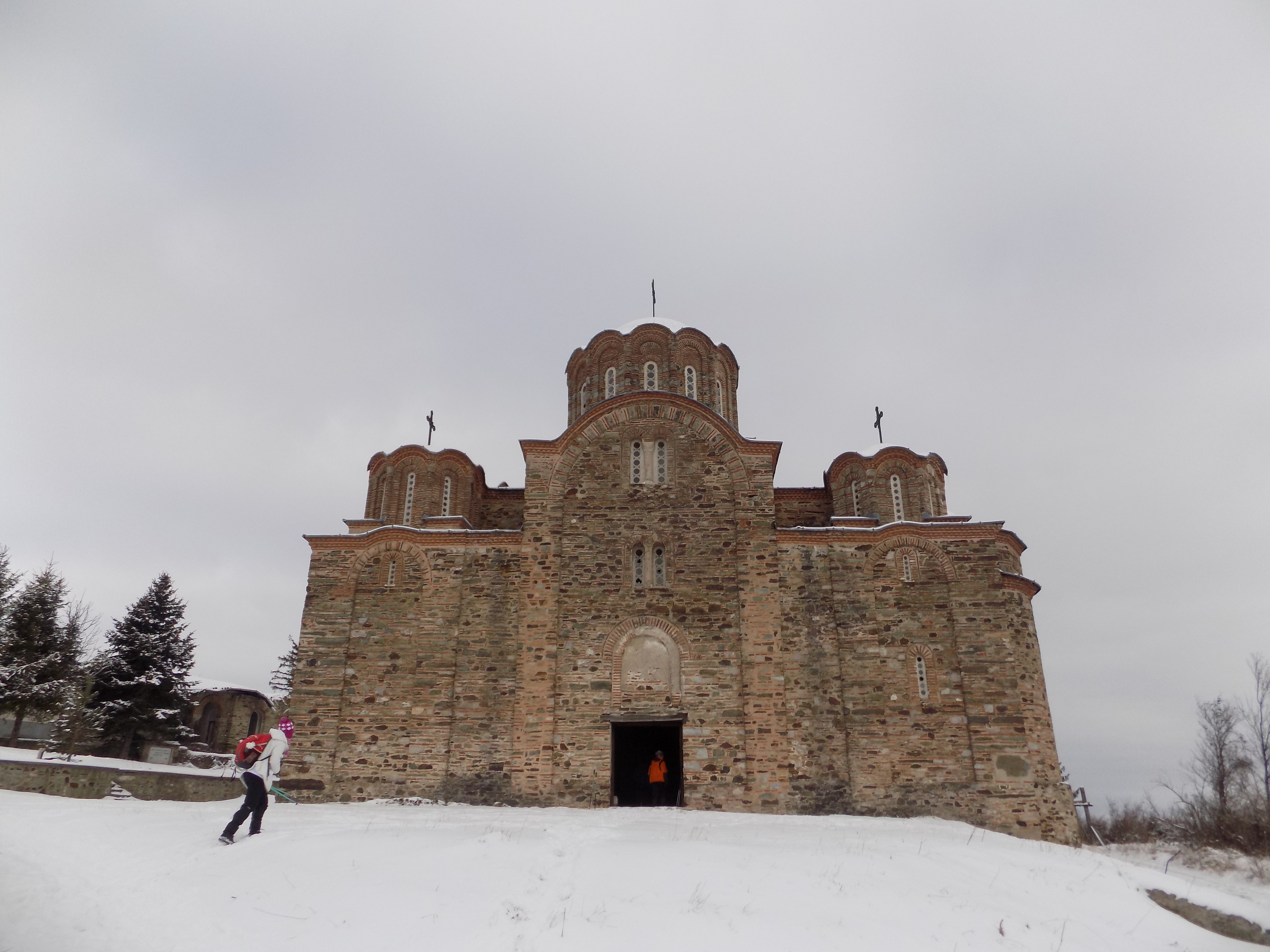 Dormition of the Theotokos Church in Matejče, Macedonia